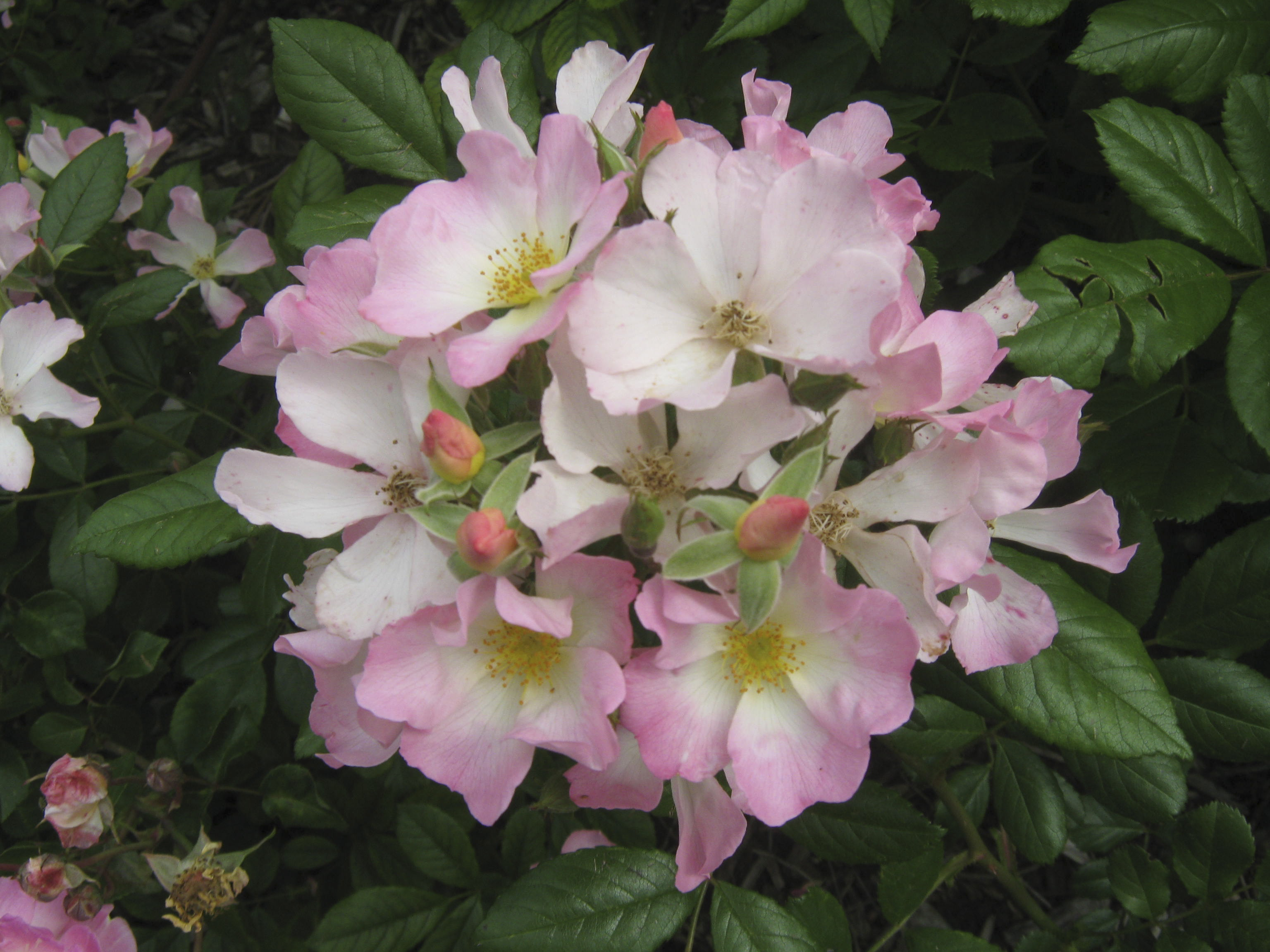 Rose 'Carabella' released Riethmuller 1960; photographed in the Royal Melbourne Botanic Gardens